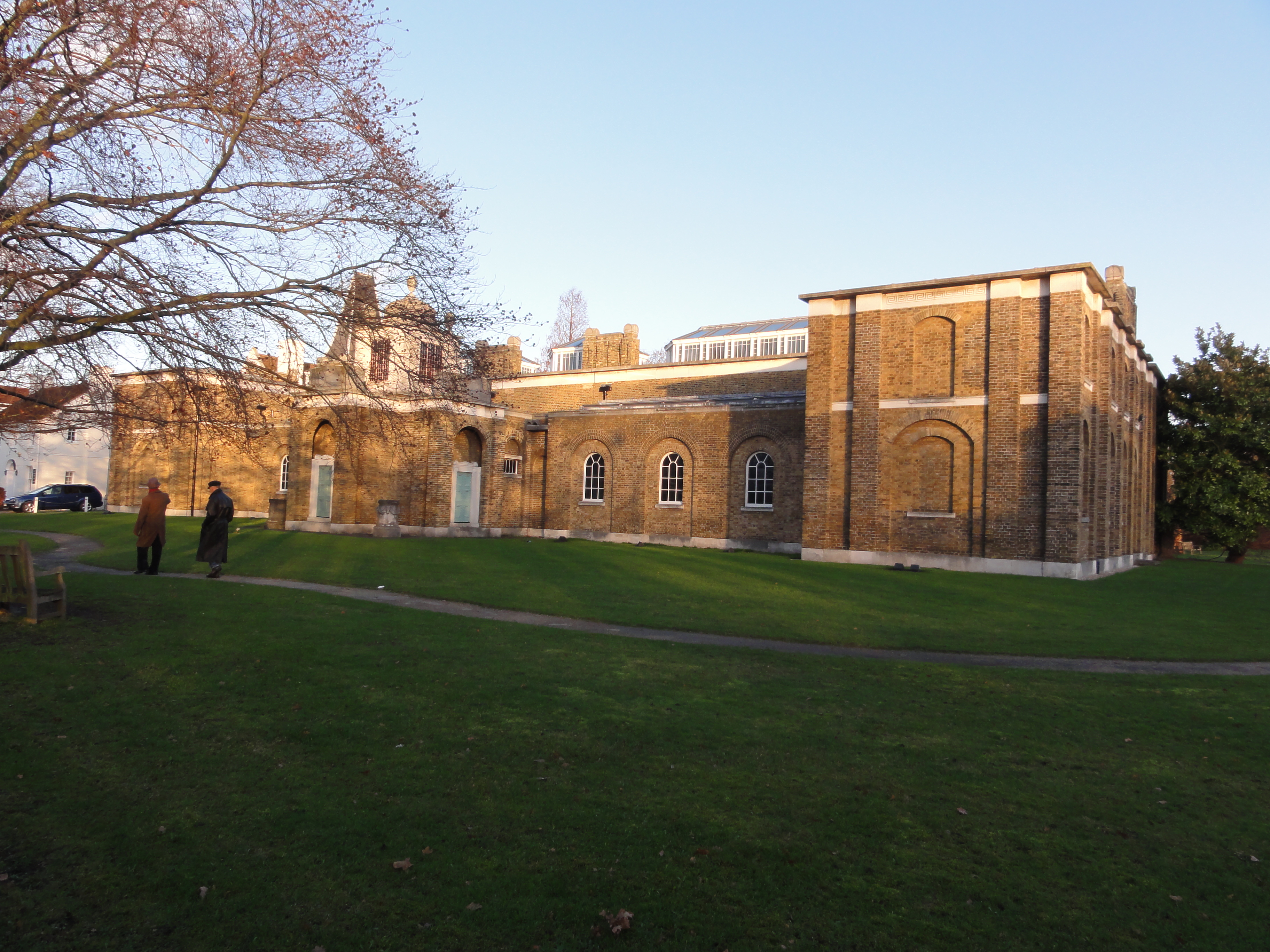 Dulwich picture gallery at sunset. Dulwich Picture Gallery Native nameDulwich Picture GalleryLocationLondonCoordinates51° 26′ 45.38″ N, 0° 05′ 10.9″ W .ukAuthority control VIAF: 147751332 LCCN: n81002769 GND: 16279502-6 BnF: cb120081448 ULAN: 500301758 WorldCat